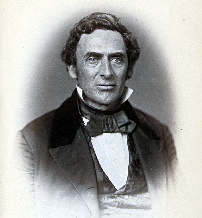 Judson W. Sherman, US Representative from New York